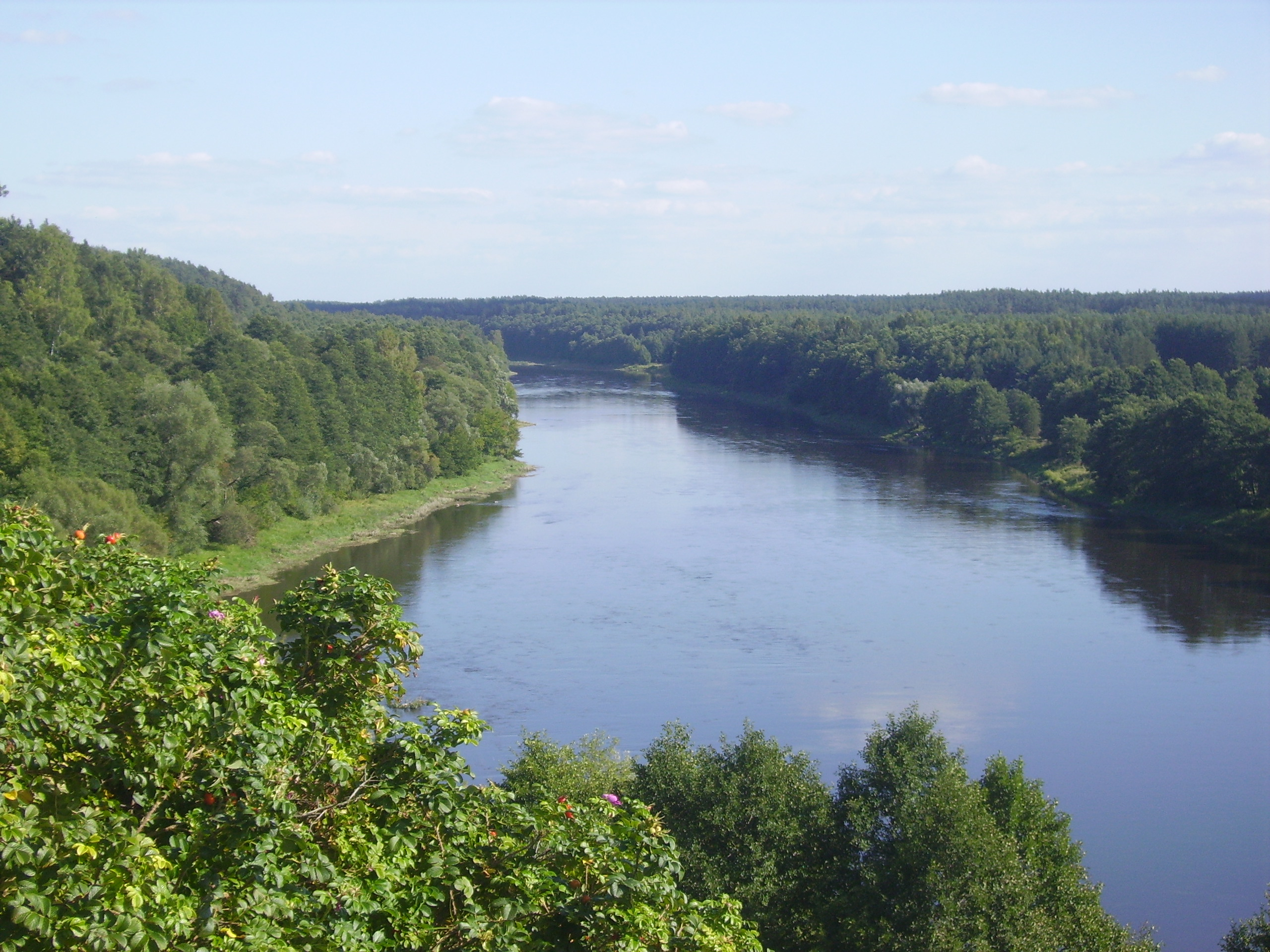 Рака Нёман каля в. Лішкава, Літва